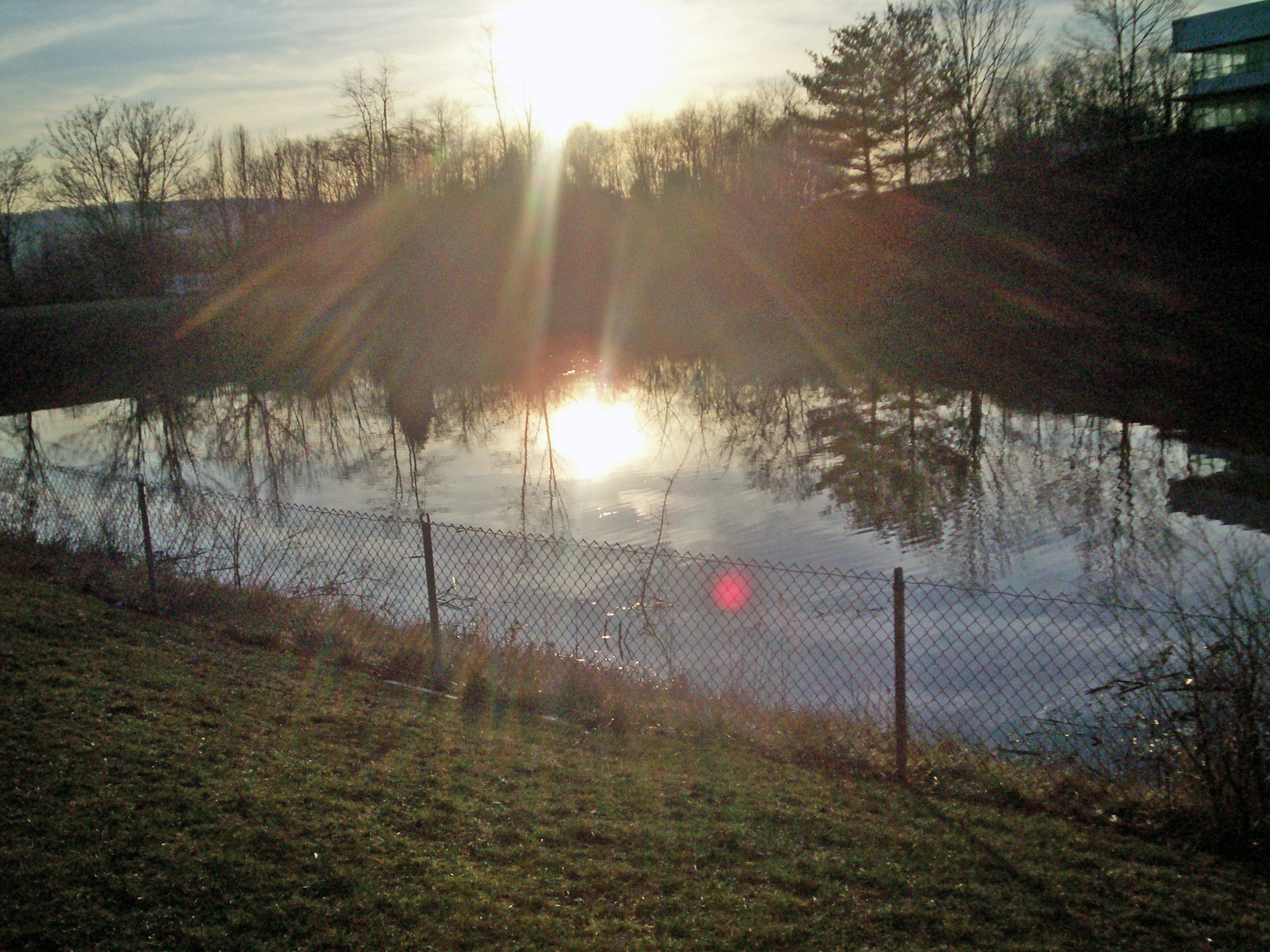 Hunt Valley, Maryland